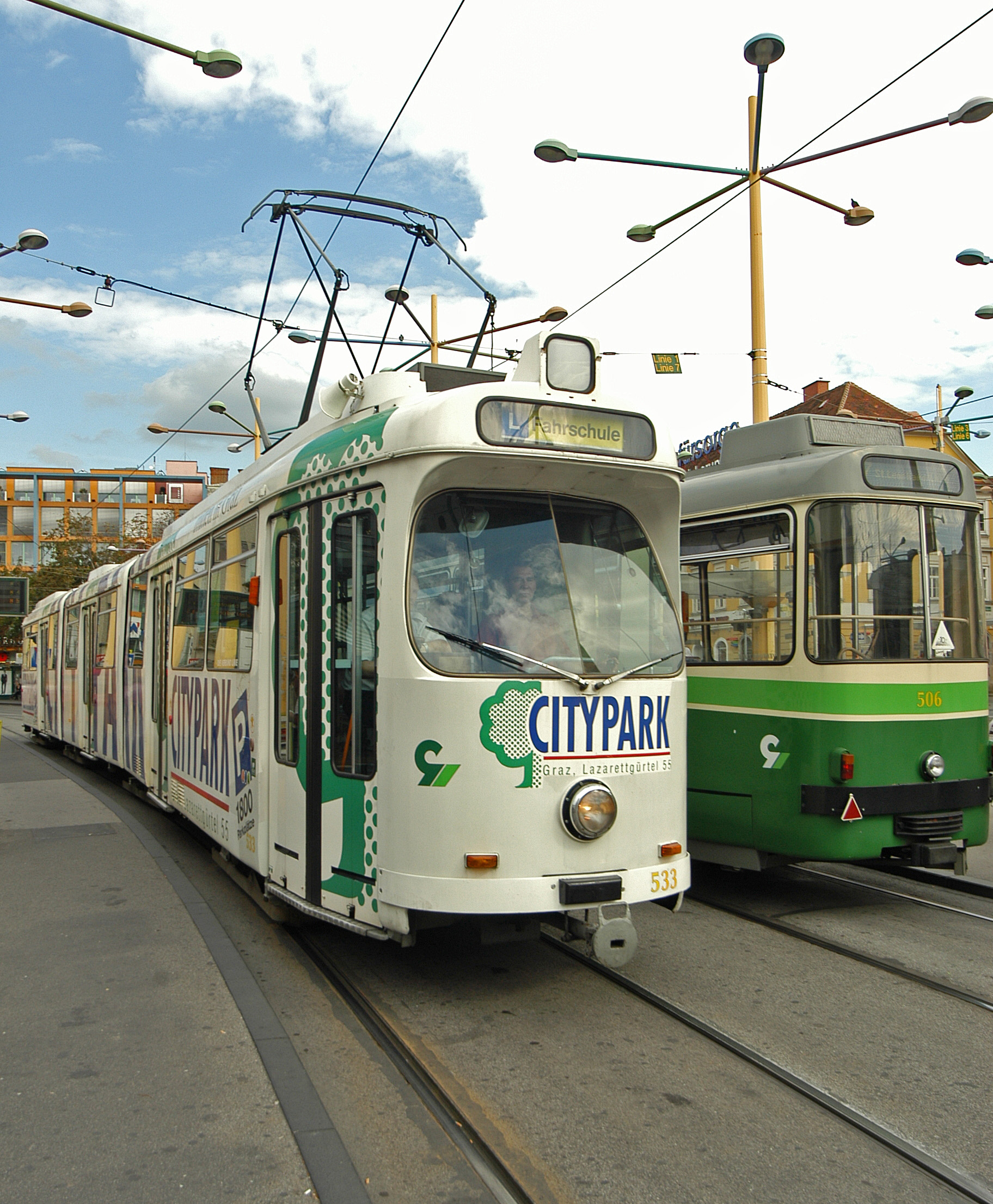 Please report references to kulacgmx.at.